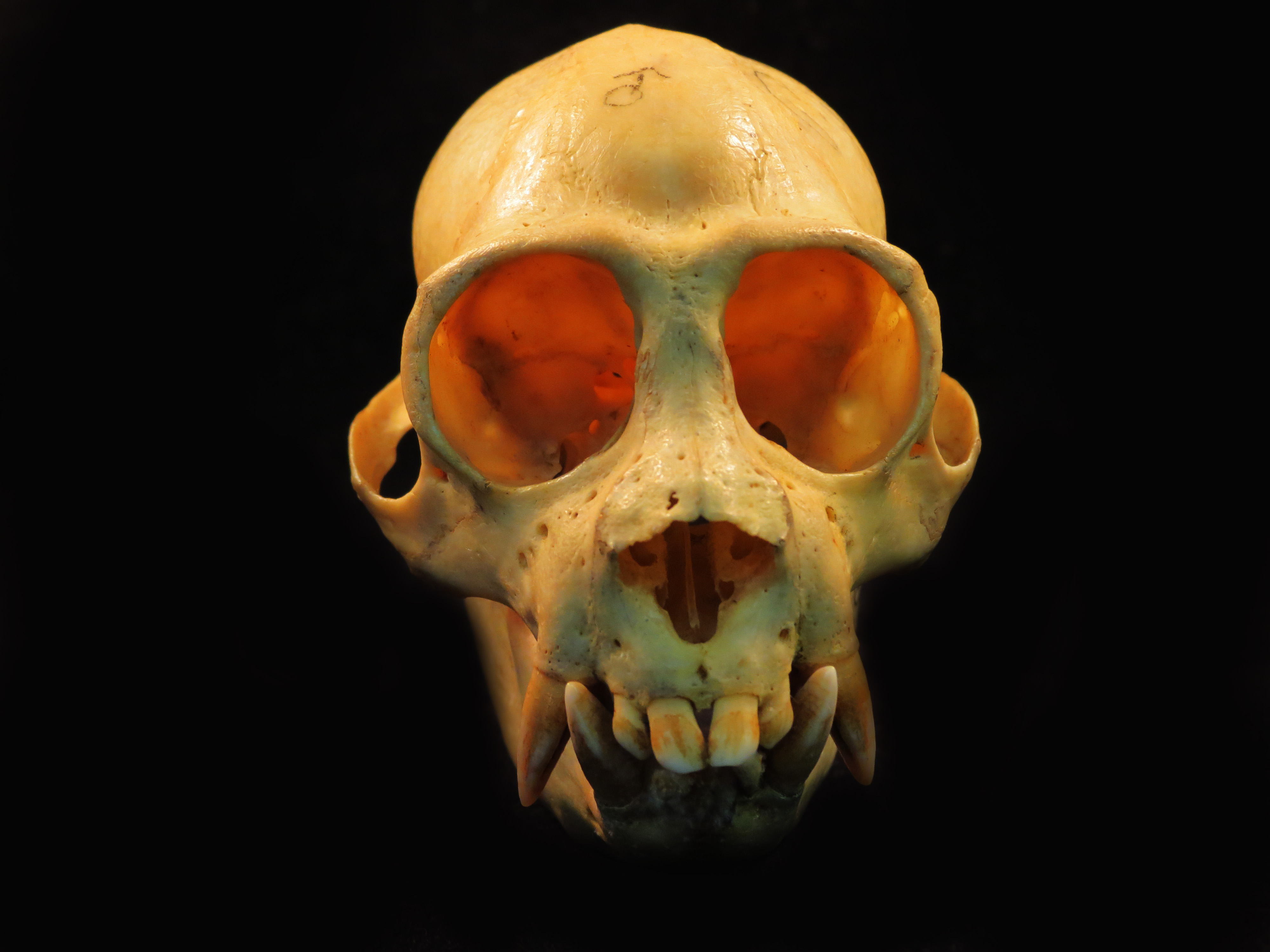 Skull of Pithecia irrorata vanzolinii from Santa Cruz, Eiru river, Amazonas, Brazil. Zoology Museum of University of São Paulo (Museu de Zoologia da USP).